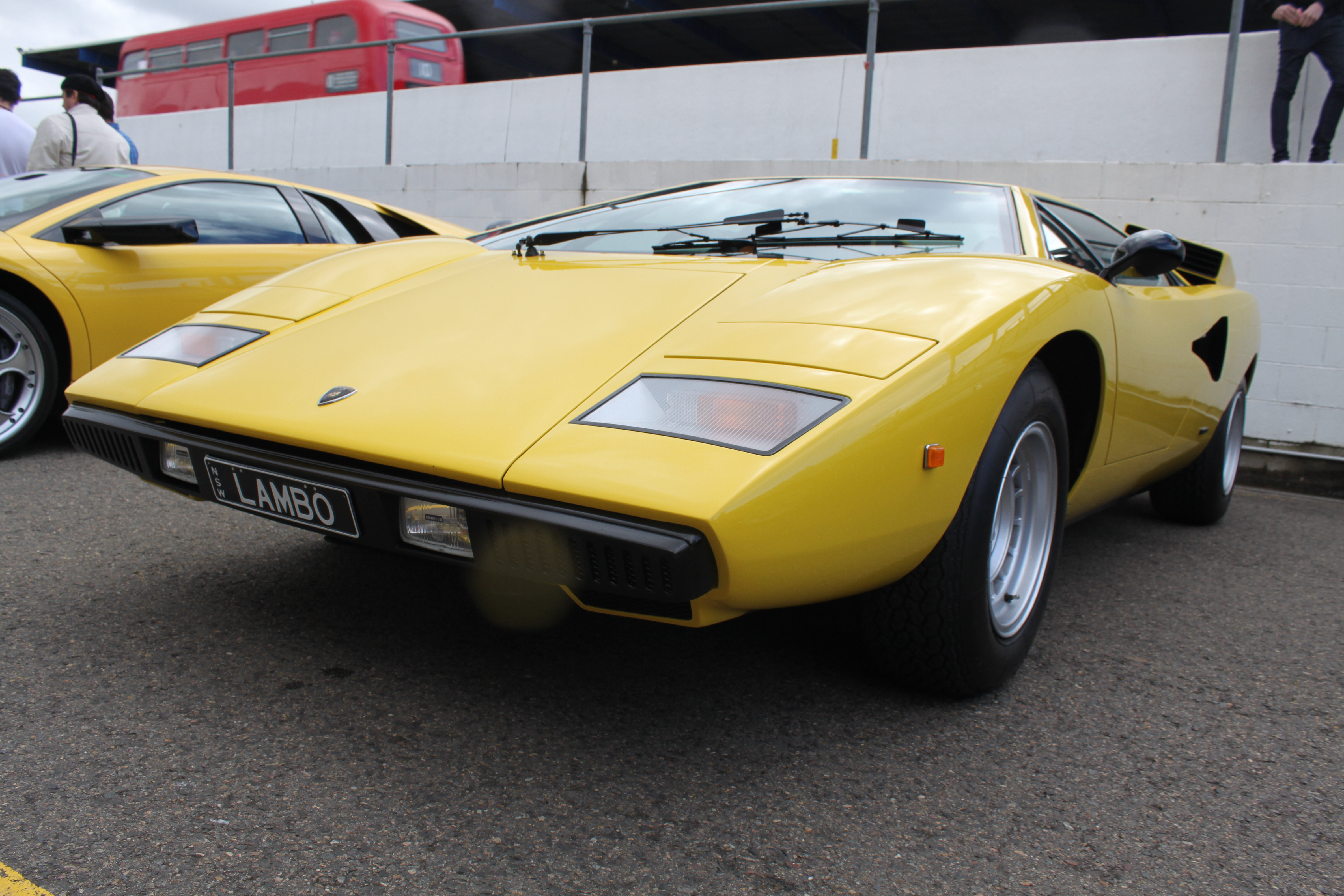 Lamborghini Countach LP 400